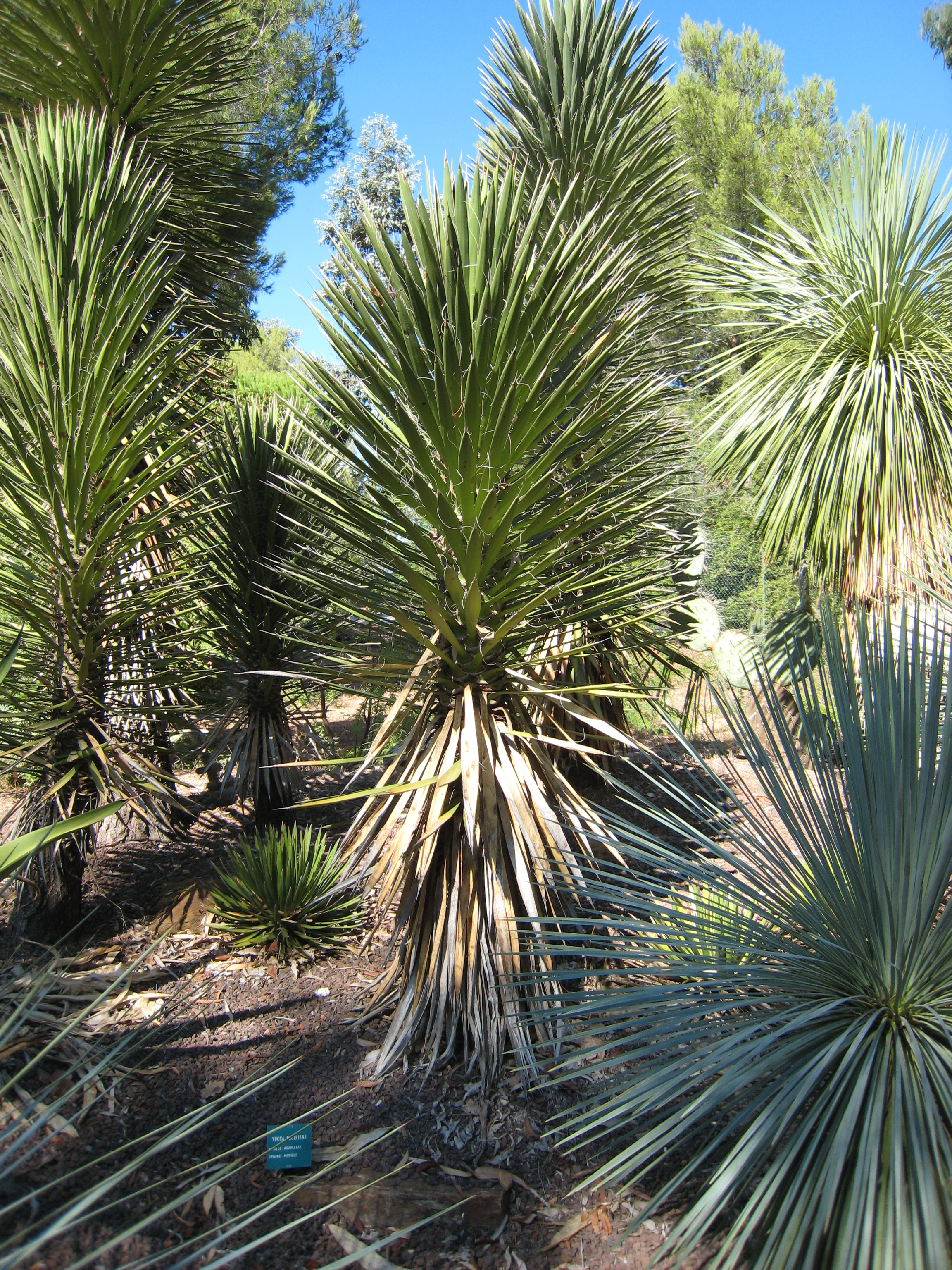 Yucca decipiens in jardin d'oiseaux tropicaux